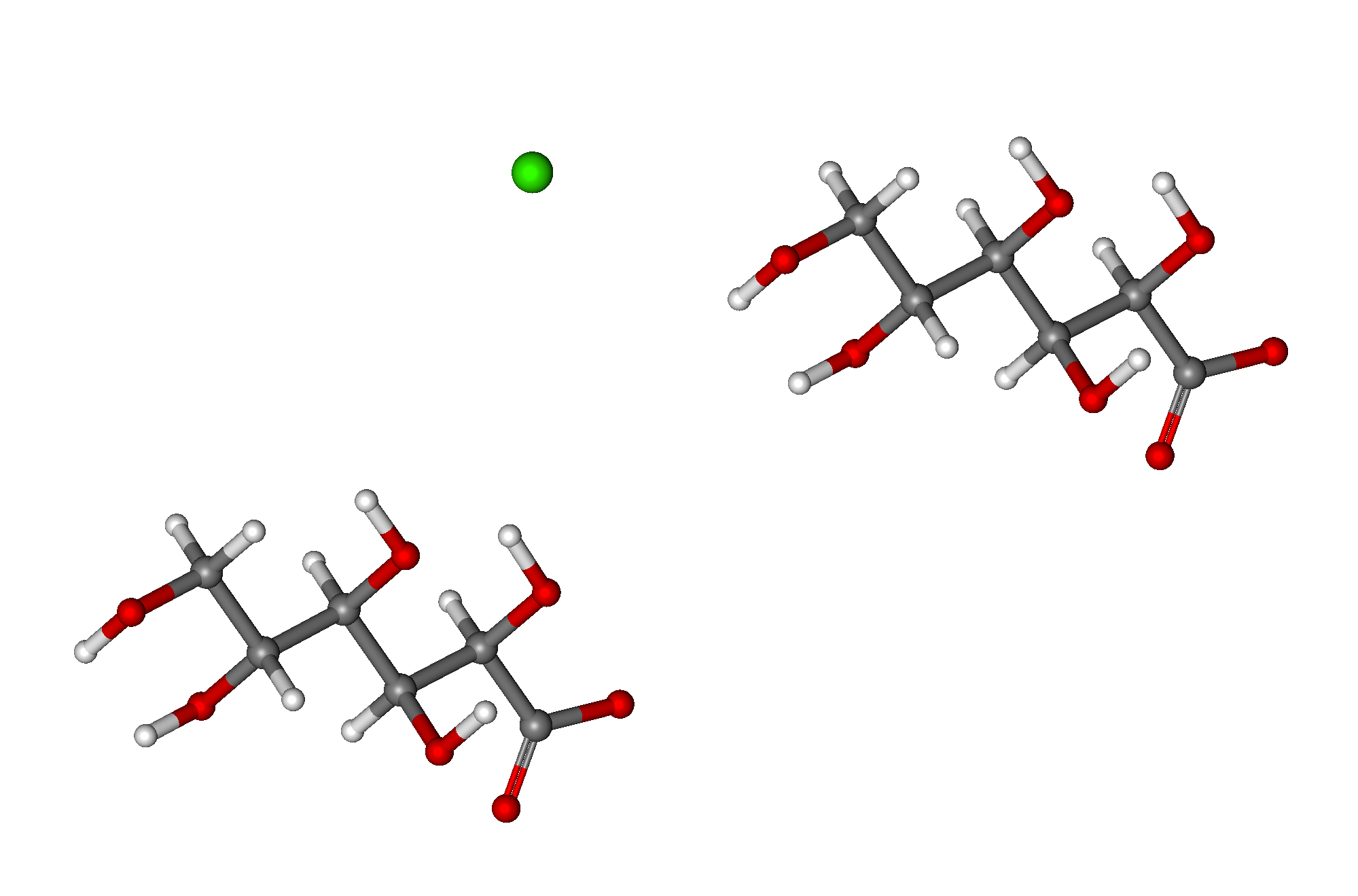 Ball-and-stick model of сalcium gluconate molecule. The structure is taken from ChemSpider. ID 8932